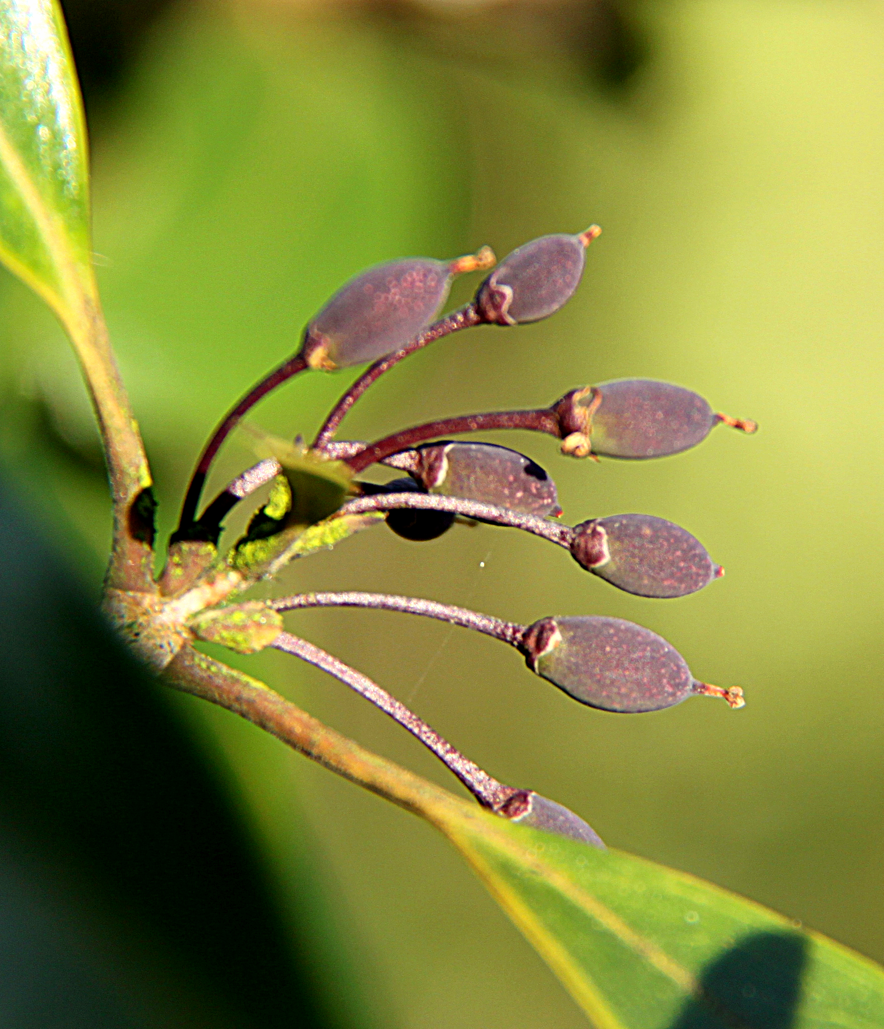 A fruitbunch of Osmanthus heterophyllus, photographed in my garden in the Netherlands on 8 March 2014. Individual fruit without stem 7 mm.